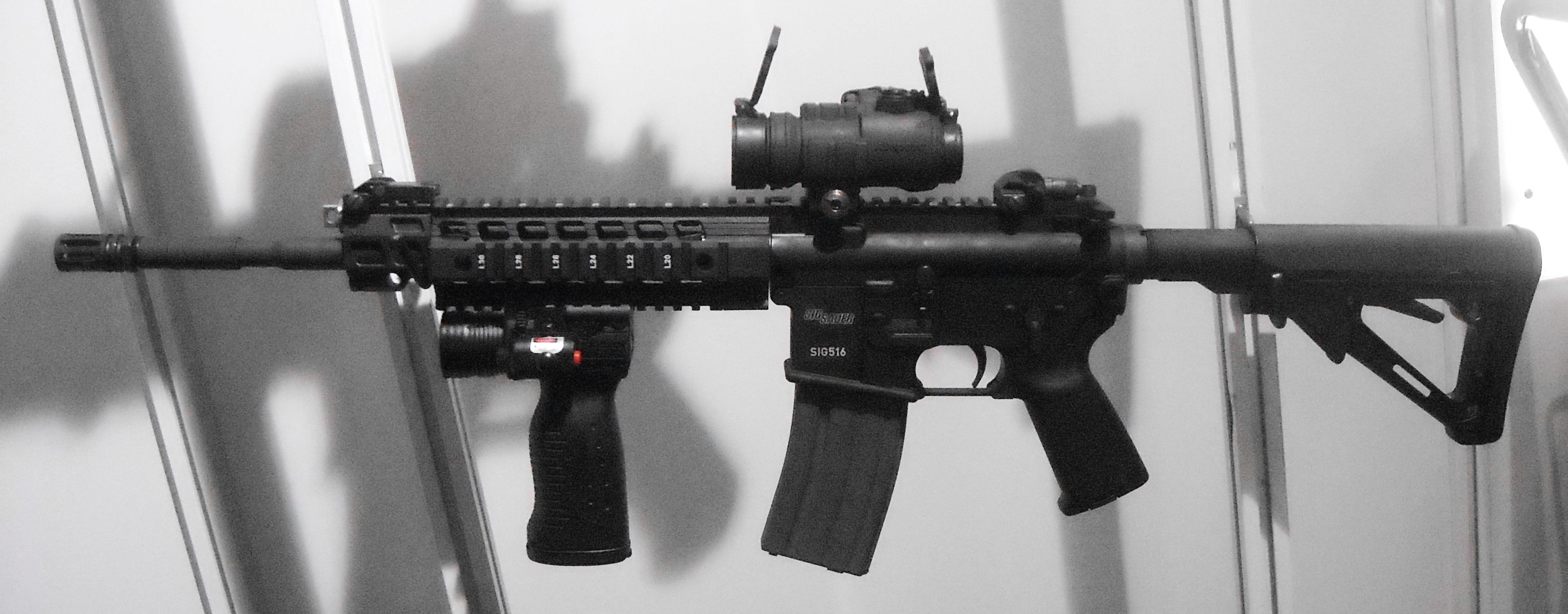 The next generation M4 rifle from Swiss Arms, the Sig Sauer SG 516 is a newborn assault rifle manufactured by the SIGARMS GmbH, Switzerland. The rifle is based on an American-made Colt Defense M4 Carbine but combined with gas piston/op-rod system, based on the SIG 550 series system.